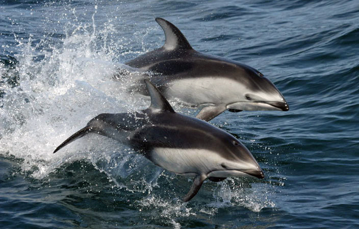 Pacific white-sided dolphins (Lagenorhynchus obliquidens) The original NOAA image has been modified by adjusting tone and brightness, and cropping.